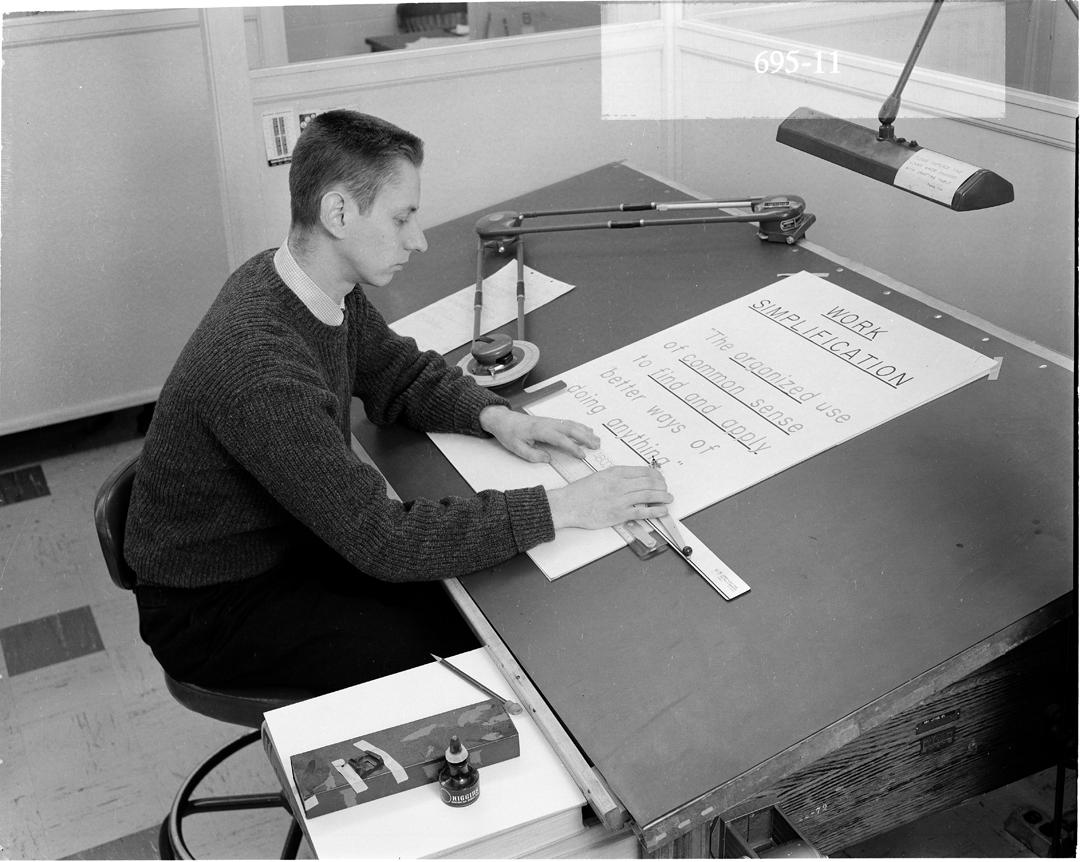 SIGN MAKING USING A LEROY (BRAND NAME) LETTERING GUIDE WITH PEN & INK For more information or additional images, please contact 202-586-5251.